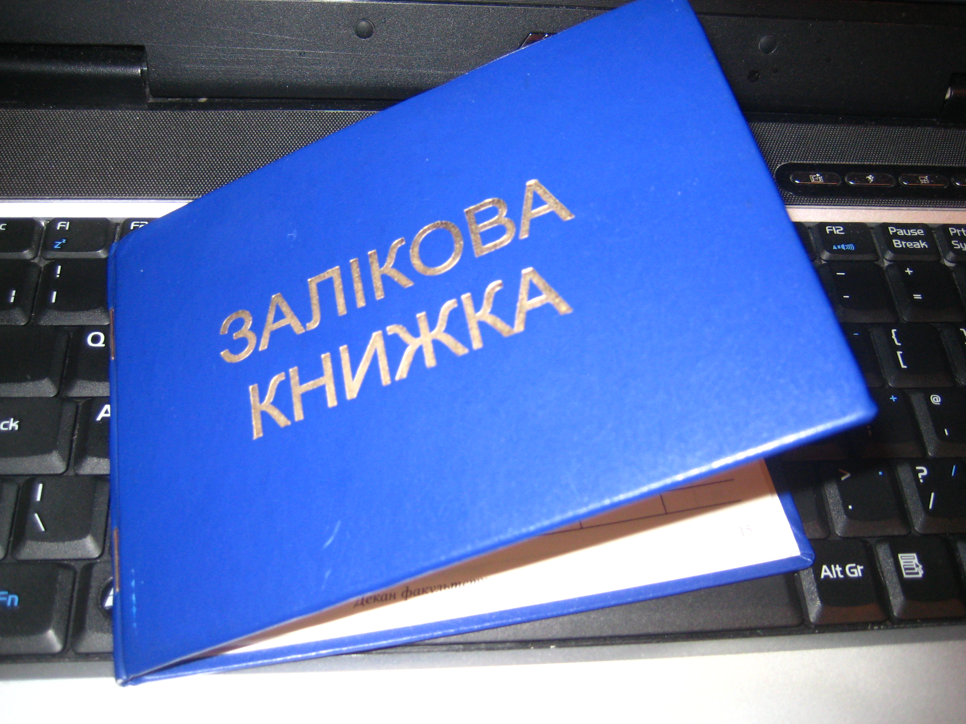 A photo of a common student's academic grade book in Ukrainian university.